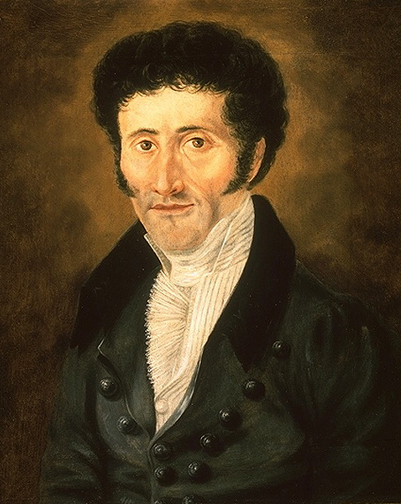 Ernst Theodor Wilhelm (E. T. A.) Hoffmann (1776-1822) German Romantic author of fantasy and horror